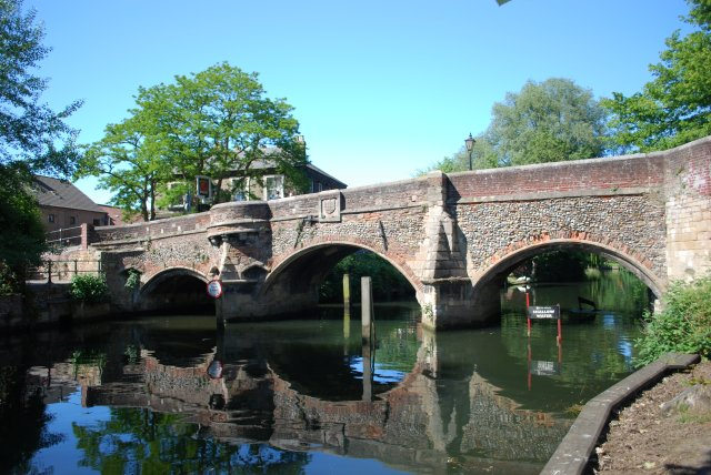 Bishop Bridge Norwich Bishop Bridge is the only surviving medieval bridge in the city. It was built in 1340, one of the oldest bridges still in use in England. A fortified gatehouse stood on the bridge until the 18th century, and the semi-circular projection you can see today is part of its outer turrets. In 1549 it became a battlefield, when Robert Kett’s rebels fought royal troops. The rebels overcame the defenders, and ran amok through Norwich. You can see the arms of the city – a lion and castle – carved over a central arch; the Red Lion pub probably derives its name from this. Originally owned by monks, the prior was allowed to build houses on the bridge but had to allow access for people and their horses beside the arches. In 1393 it was handed over to the city.